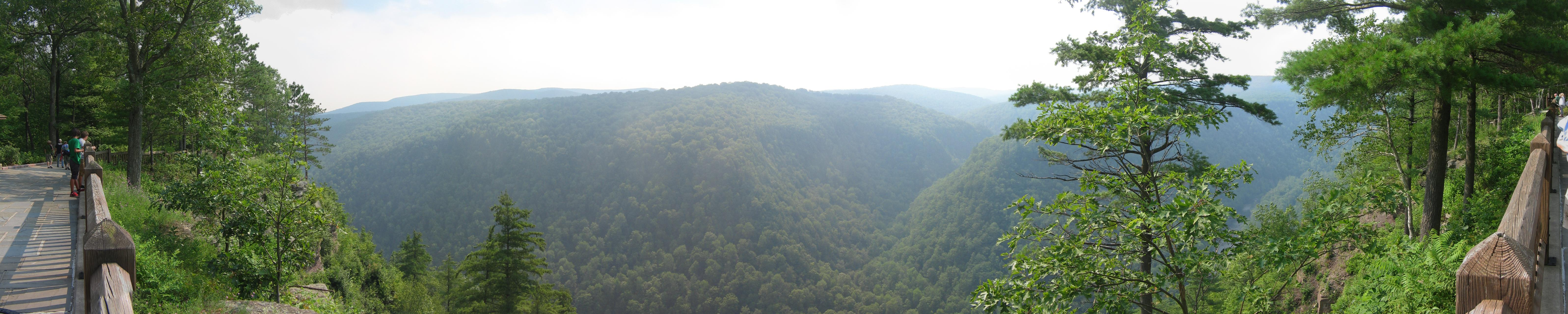 Panorama of the Pine Creek Gorge, as seen from the main vista overlook in Leonard Harrison State Park in Shippen Township, Tioga County, Pennsylvania, United States.